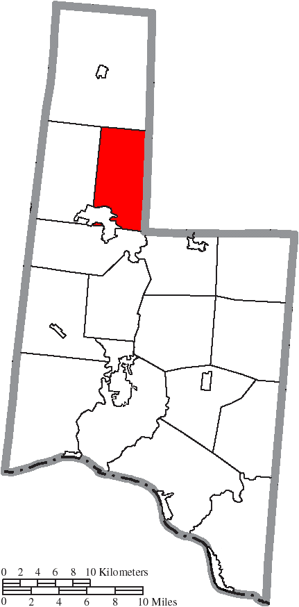 Map of the municipal and township boundaries of Brown County, Ohio, United States, as of the 2000 census, with the location of Green Township highlighted. Township borders are shown only in unincorporated areas in order to differentiate incorporated and unincorporated areas more clearly.